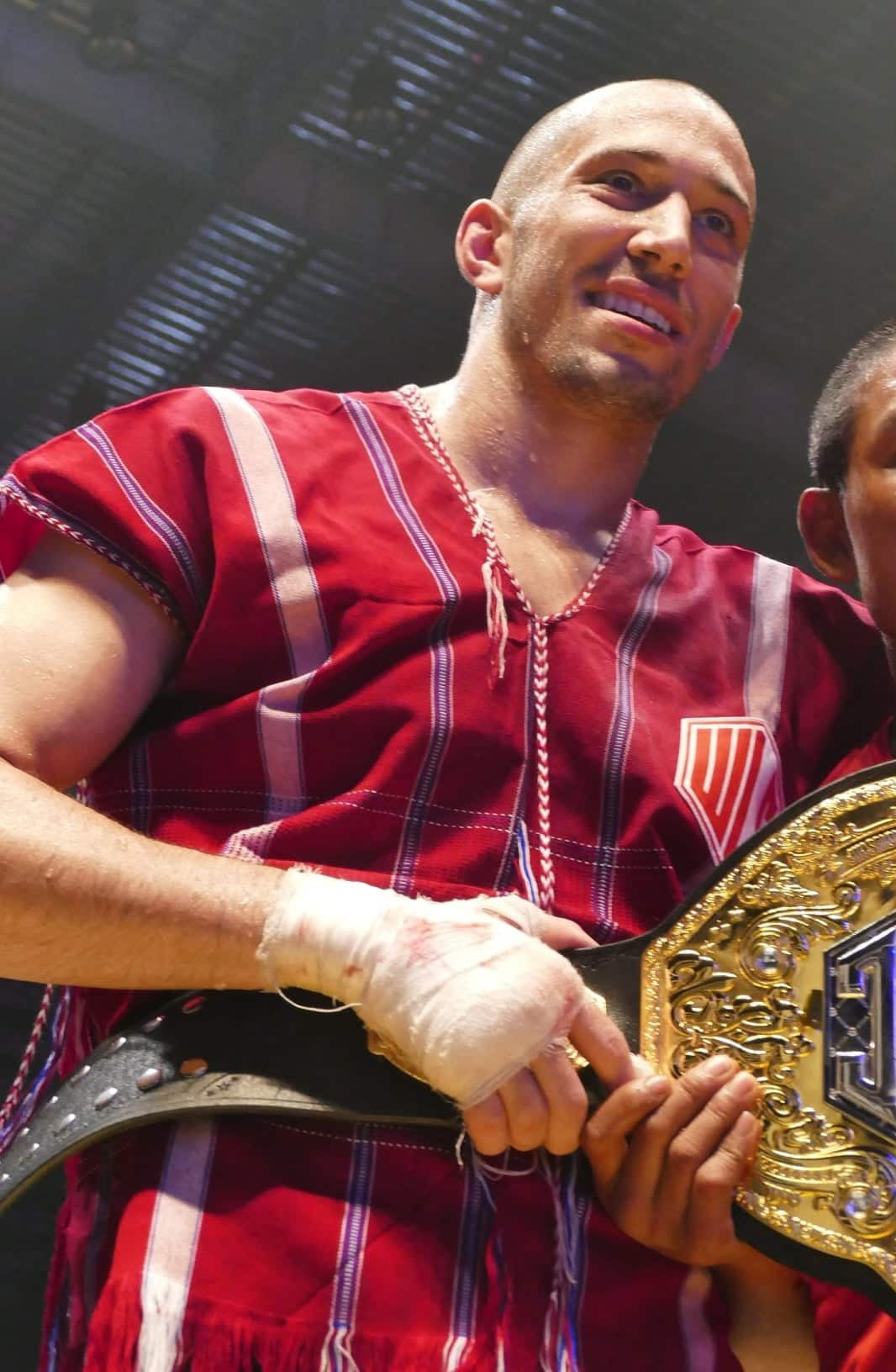 Dave Leduc after his World Lethwei Championship title fight in Mandalay Myanmar